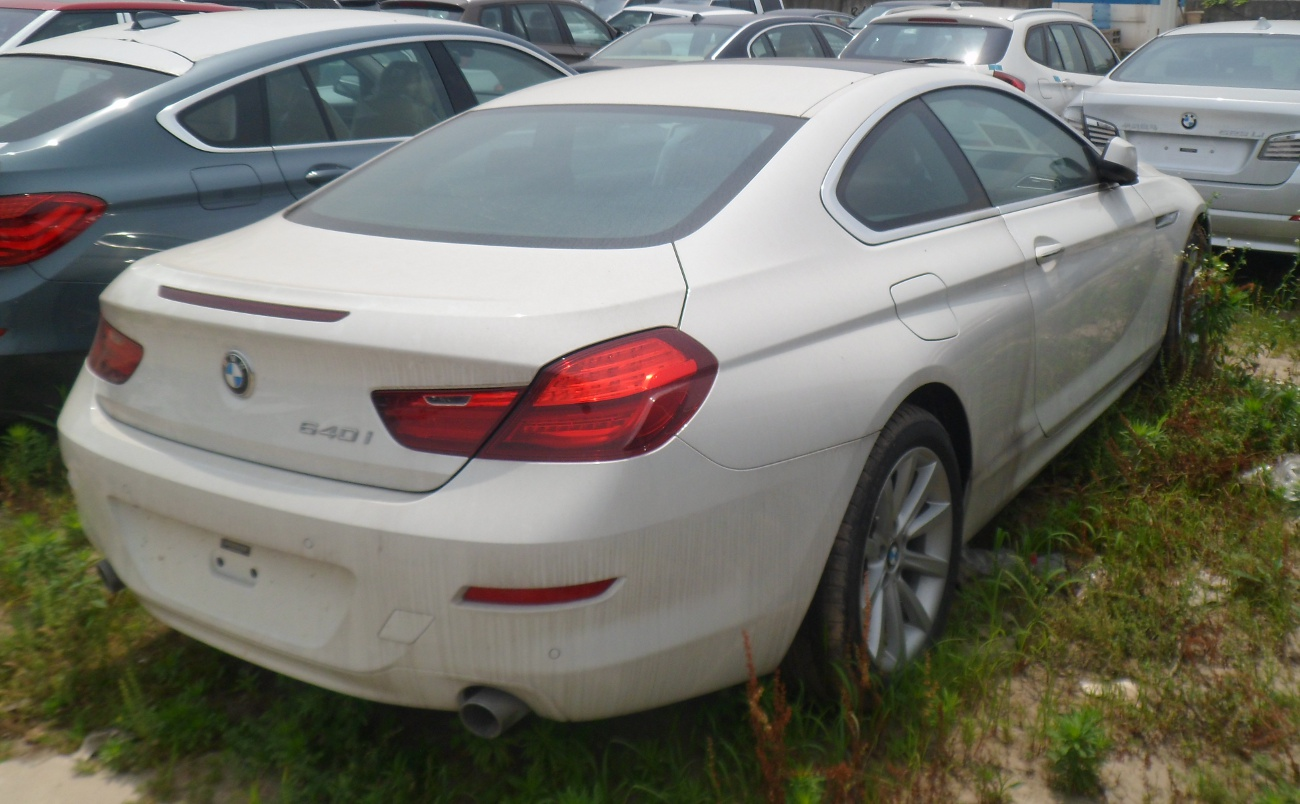 BMW 6-Series F13 photographed in Shanghai, China.